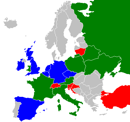 Top division II. division III. division